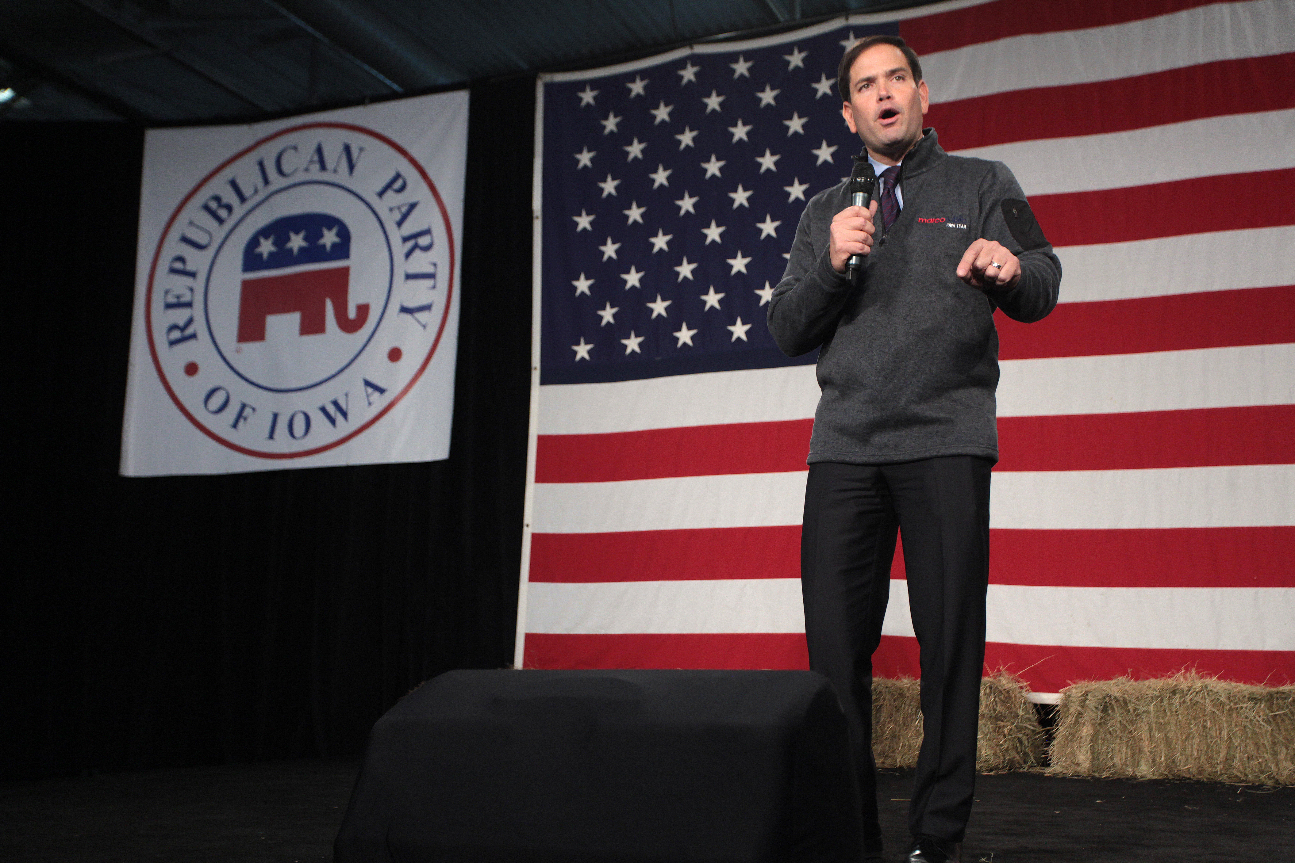 Marco Rubio speaking at the Iowa GOP's Growth and Opportunity Party in Des Moines, Iowa on October 31, 2015.